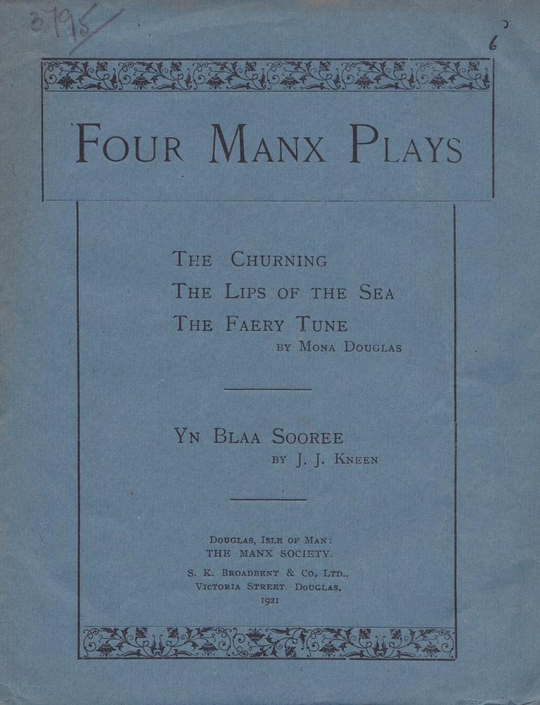 The front cover of 'Four Manx Plays' by Mona Douglas and J. J. Kneen.